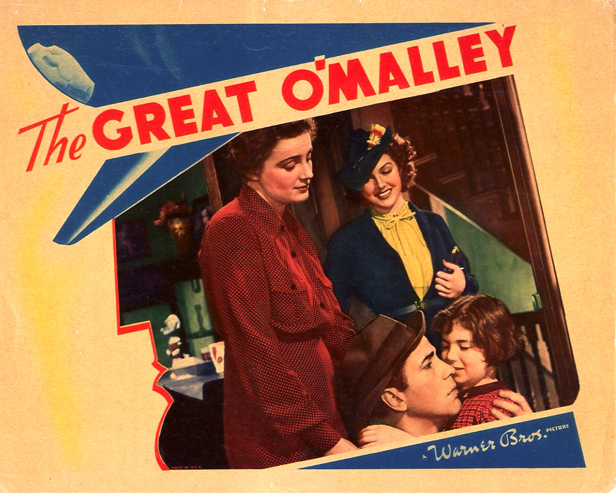 Lobby card from the 1937 film The Great O'Malley with Frieda Inescort, Humphrey Bogart, Ann Sheridan and Sybil Jason.